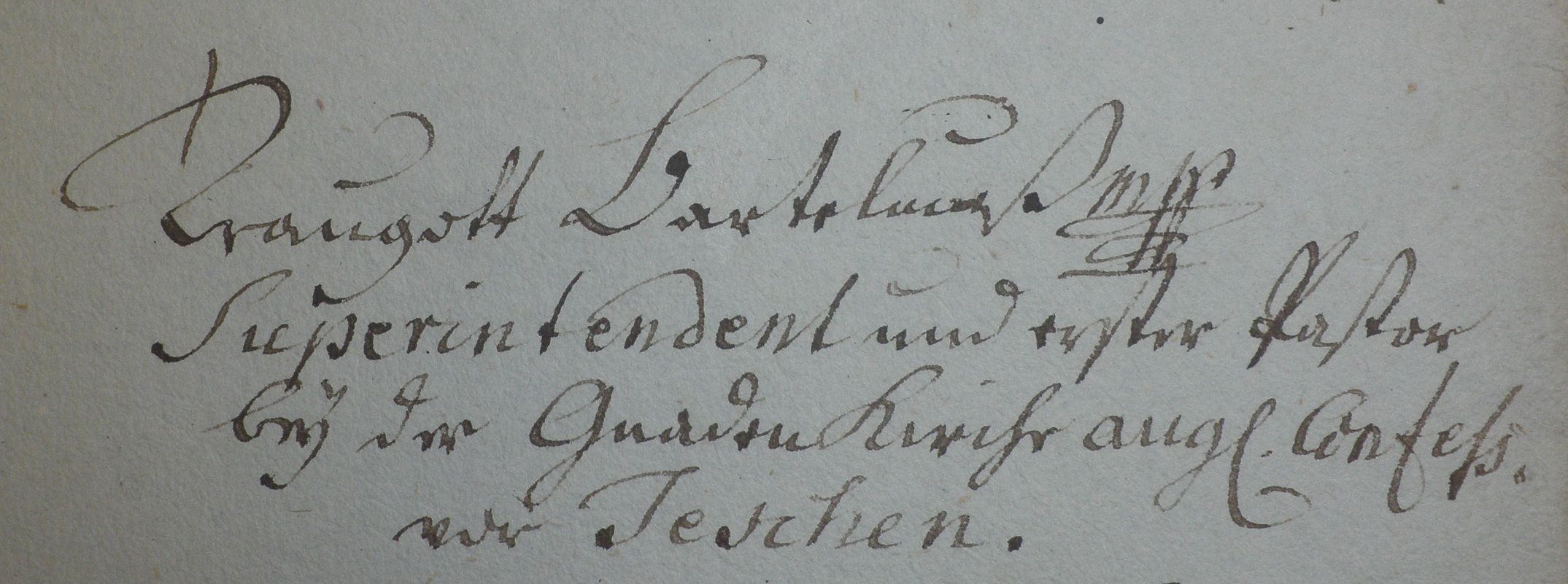 Autograph of superintendent Traugott Bartelmus. (Tschammer's Library and Archive in Cieszyn, Parish Archive, sign. 1547)